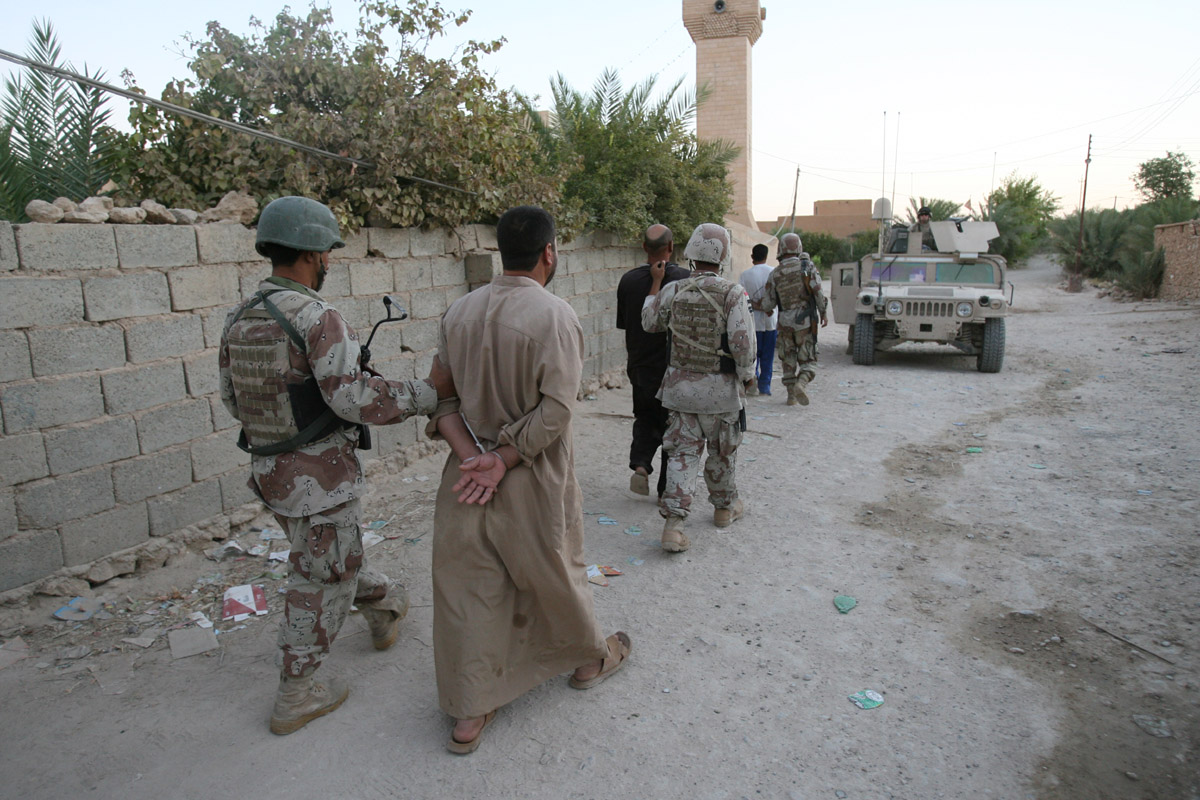 Iraqi Soldiers lead several suspected insurgents to a vehicle Sept. 13, 2006, after apprehending them in Baghdadi, Iraq, with the assistance of Marines assigned to the Hawaii-based Weapons Company, 3rd Battalion, 3rd Marine Regiment. The Marines and Iraqi soldiers recently completed a census operation dubbed �Operation Guardian Tiger IV� in the Euphrates River city of Baghdadi � a town of approximately 15,000. The local government and Iraqi Security Forces can now put names and faces to residents throughout this city in the western Al Anbar Province about 120 miles northwest of Baghdad. Upon completion of the mission, the Marines from the Hawaii-based Weapons Company, 3rd Battalion, 3rd Marine Regiment had an accurate census of the city�s population. The purpose of a census is to record the demographics of an area as well as the town�s population. It also provides employment statistics and the number of vehicles belonging to residents in the area, said Cpl.. Austin Bridgewater, 22, a native of Richmond, Va., and an intelligence analyst assigned to the Hawaii-based 2d Battalion, 3rd Marine Regiment. Marines from 2d Battalion are slated to replace the Marines from 3rd Battalion, who are wrapping up their seven-month deployment to Iraq. The Marines and Iraqi Soldiers also spread word of opportunities to join the police and sent a message out to insurgents � �there is nowhere you can hide.